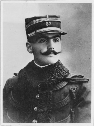 Photo of Capitaine Paul Camille Marie LAMY of the french 87th Infantry